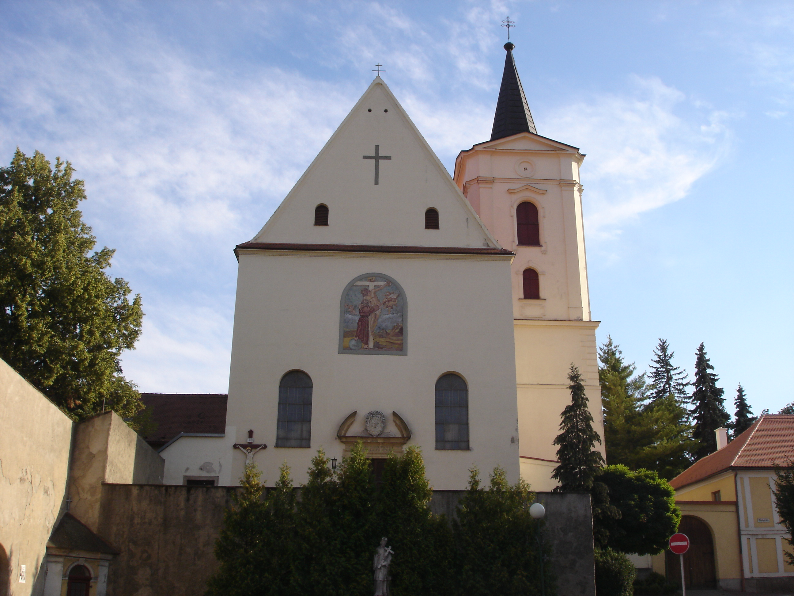 Jejkov, church of the Transfiguration in Třebíč, Jejkov.